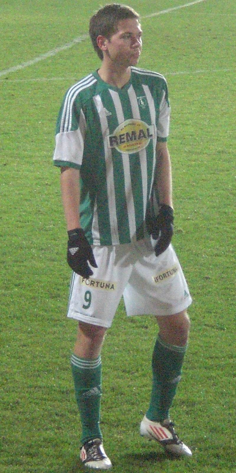 Pavel Vyhnal of Bohemians 1905 during the match against Pardubice.